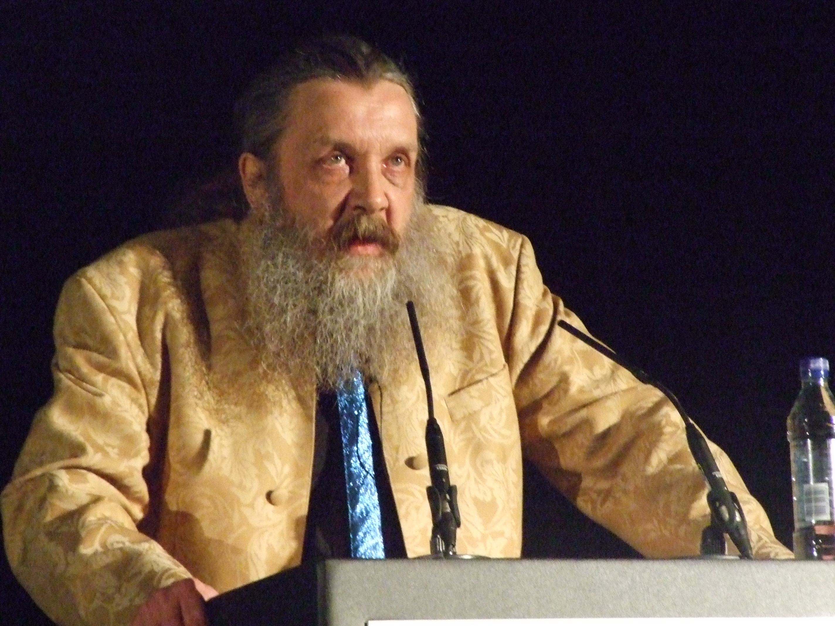 Alan Moore speaking at TAM London 2010